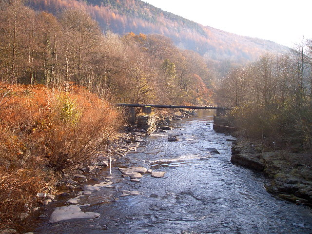 Disused railway bridge at Mount Pleasant. This bridge was one of many that crossed the River Taff in the Merthyr valley to take branch lines from the Taff Valley Railway to the pits.